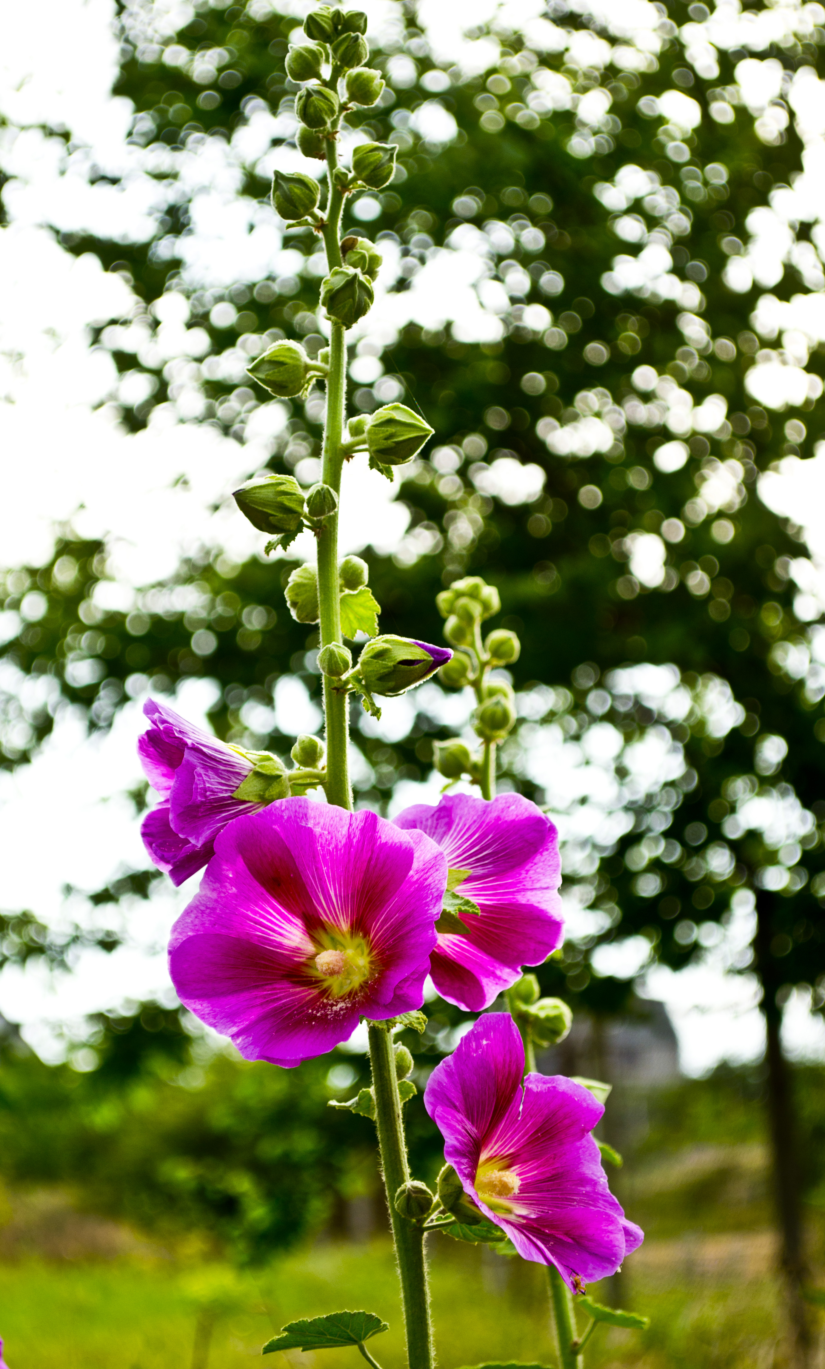 Field flower near Tiligul estuary